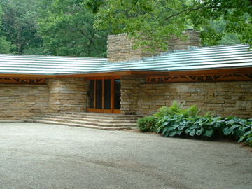 Picture of front entrance of Kentuck Knob, a Frank Lloyd Wright home in Stewart Township, PA